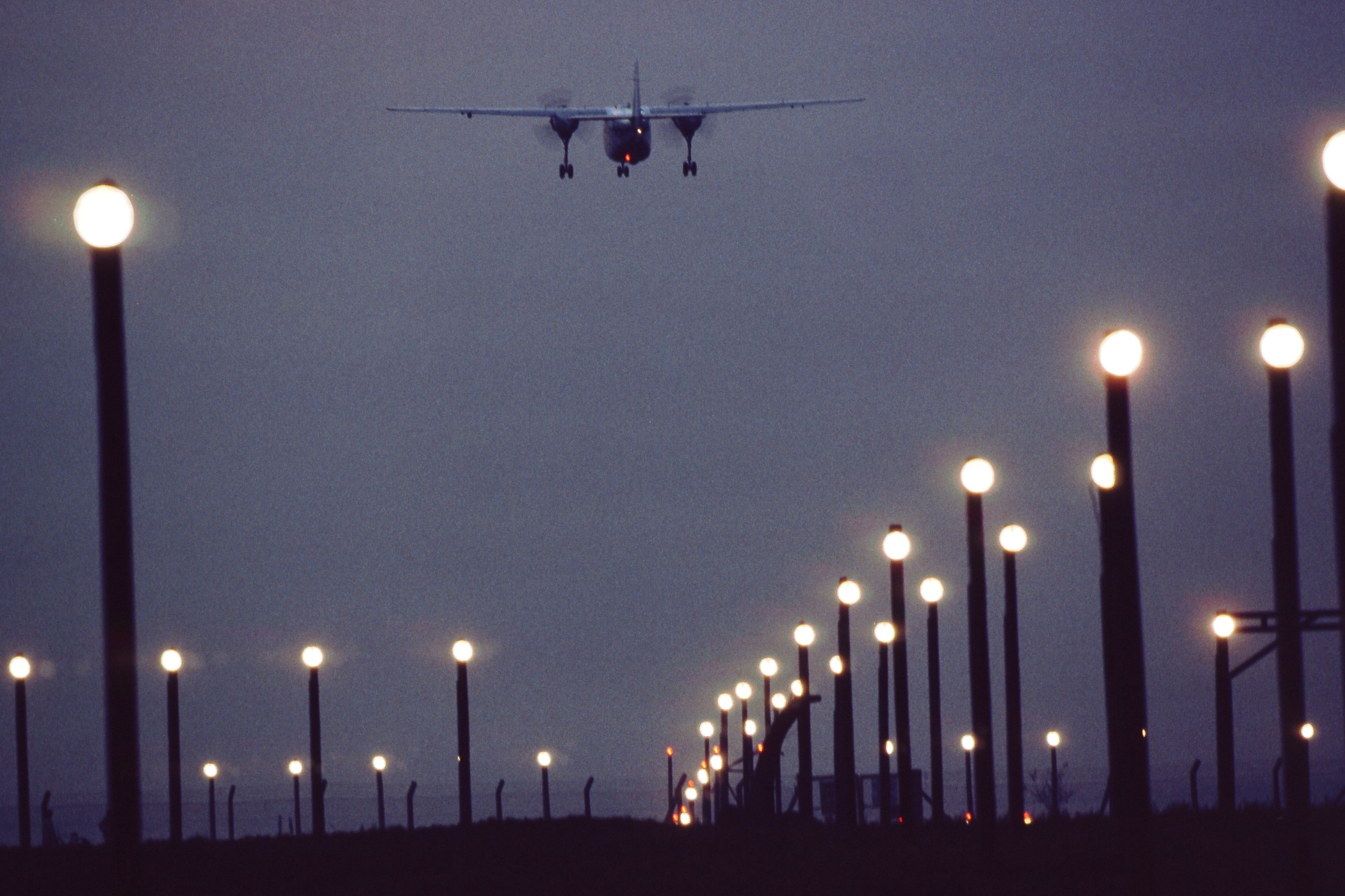 The former RAF airfield at Wildenrath (Wegberg) pictured in the mid 1980s from the side of Tüschenbroich.